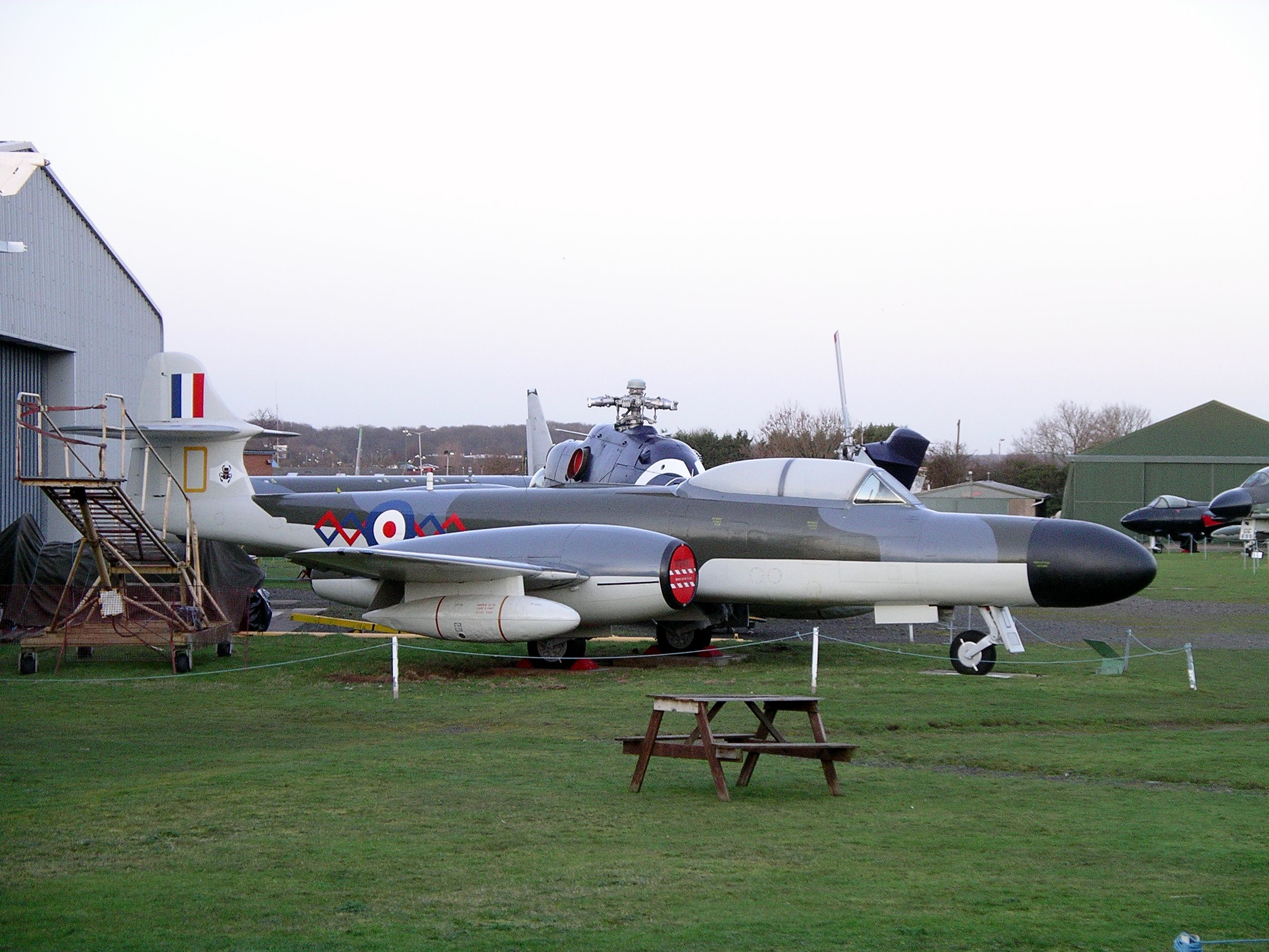 Photo taken by me on 6 March 2007 of a Gloster Meteor NF.14 at the Midland Air Museum, Warwickshire, England.